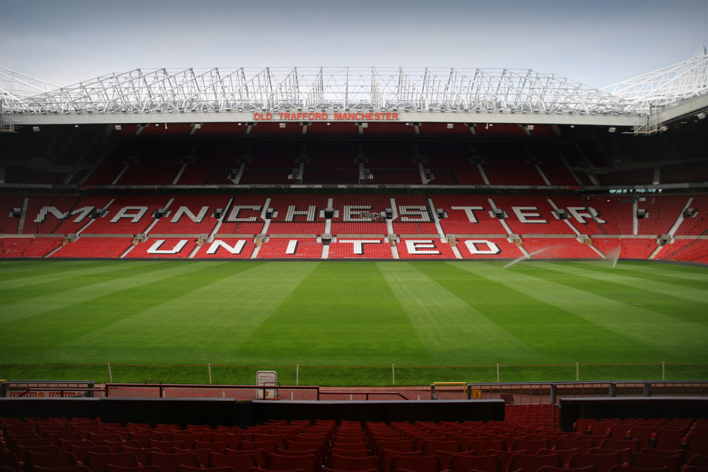 Old Trafford, given the nickname the Theatre of Dreams by Sir Bobby Charlton, is a football stadium in the Trafford borough of Greater Manchester, England.